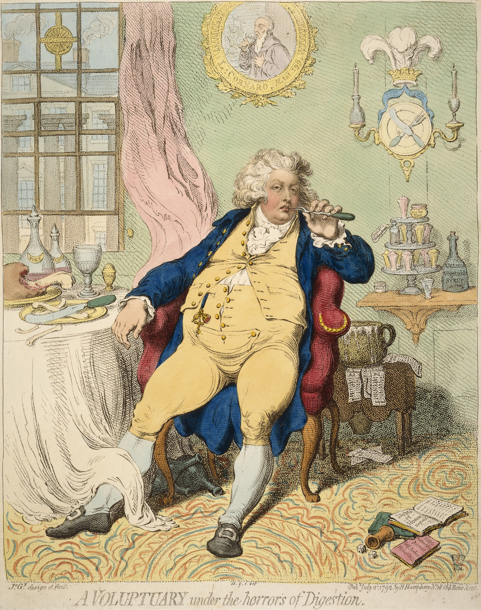 A voluptuary under the horrors of digestion Js. Gy. design et fecit. SUMMARY: Caricature of George IV as the Prince of Wales, languid with repletion, leaning back in an arm-chair, at a table covered with remains of a meal, holding a fork to his mouth. His waistcoat is held together by a single button across his distended stomach. In the background, the Prince of Wales' three ostrich feathers emblem is shown above a knife and fork crossed on a plate (instead of a coat of arms). The picture behind and above the Prince's head is of Luigi Cornaro, a Venetian nobleman who wrote several treatises concerning dieting and eating habits. MEDIUM: 1 print : engraving, color. CREATED/PUBLISHED: [London] : Pubd. by H. Humphrey, 1792 July 2d. According to Wright & Evans, Historical and Descriptive Account of the Caricatures of James Gillray (1851, OCLC 59510372), p. 47, "A bitter satire on the Heir to the Throne, who was at this time celebrated for his voluptuousness, and for the pecuniary difficulties in which he was constantly involved, in consequence of his expensive habits. The picture is full of allusions, which tell their own story."